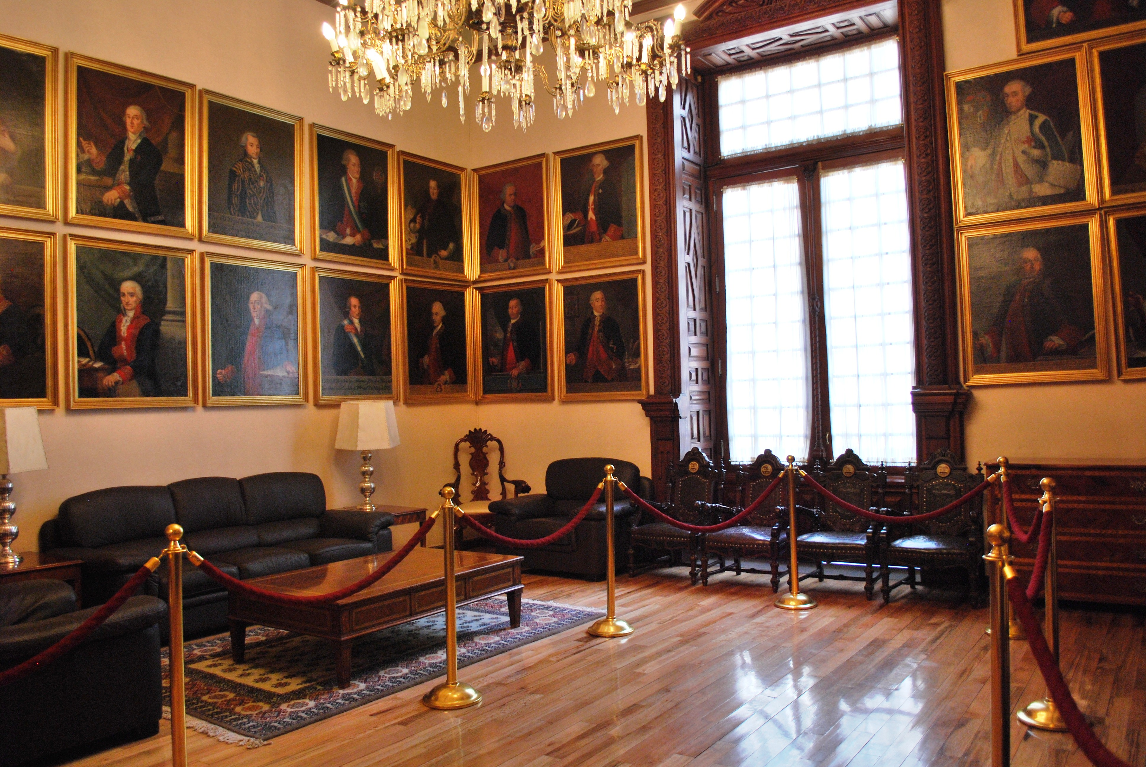 One view of the entry hall into the Salon de Cabildos of the Palacio de Ayuntamiento (Old Town Hall) of Mexico City. It contains portraits of all 62 viceroys (all public domain -old ... as last viceroy left Mexico in 1821)